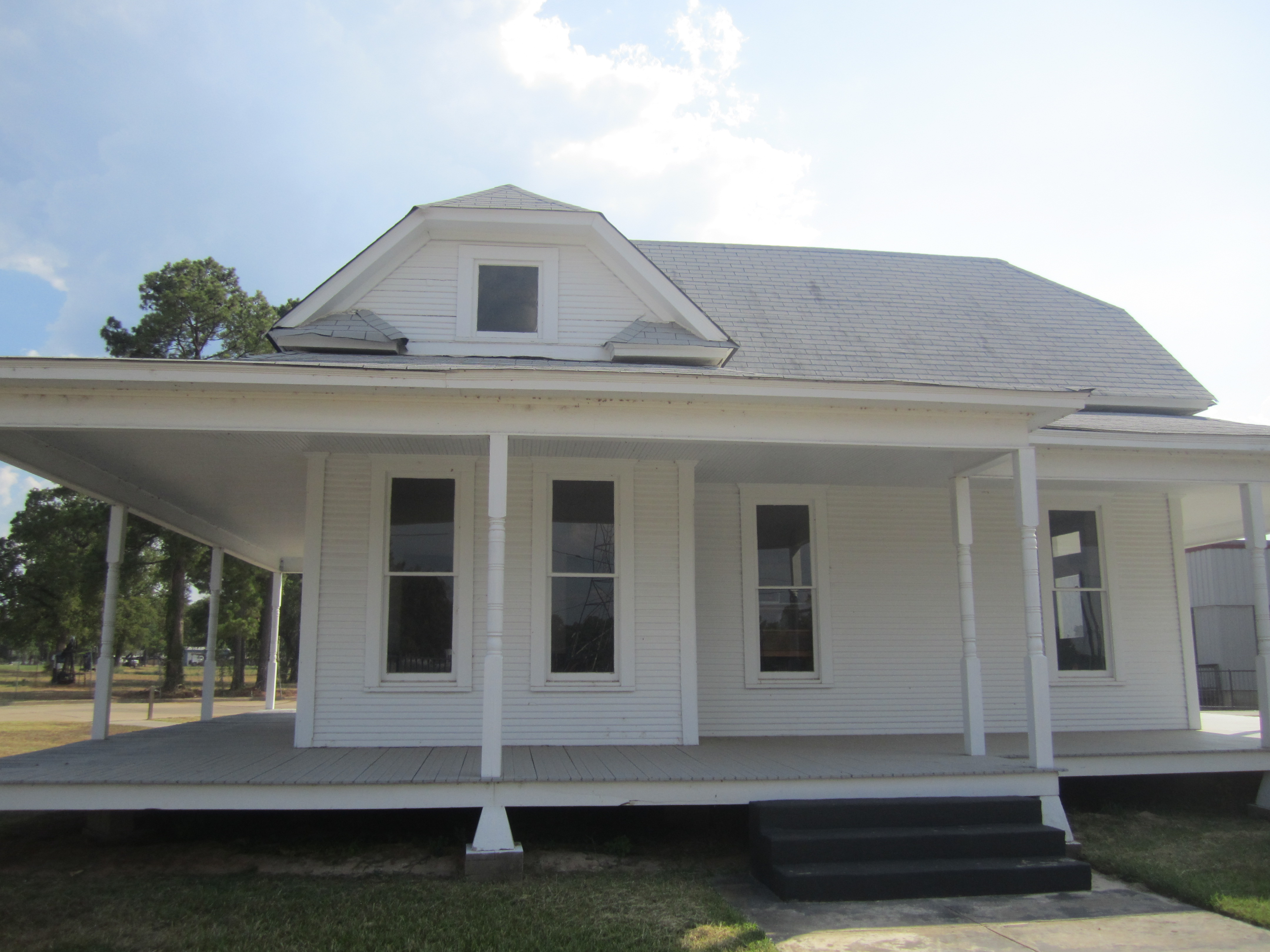 I took photo with Canon camera of Trees City Office and Bank, relocated in 1983 to Oil City, LA.